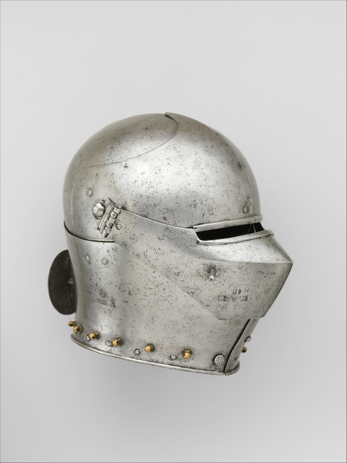 Italian, probably Milan; Armet; Helmets